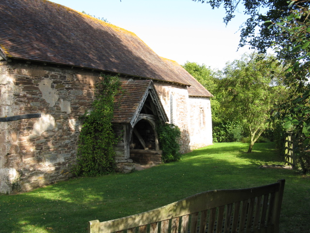 The Old Church, Lower Sapey, near to Harpley, Worcestershire, Great Britain.